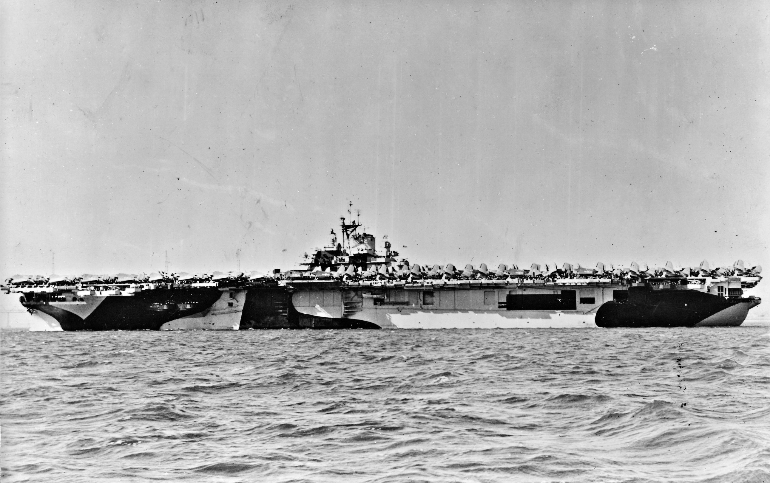 Portside view of the U.S. aircraft carrier USS Essex (CV-9), carrying a deckload of almost 100 planes. Between April and November 1944 Essex wore the Camouflage Measure 32, Design 6/10D.